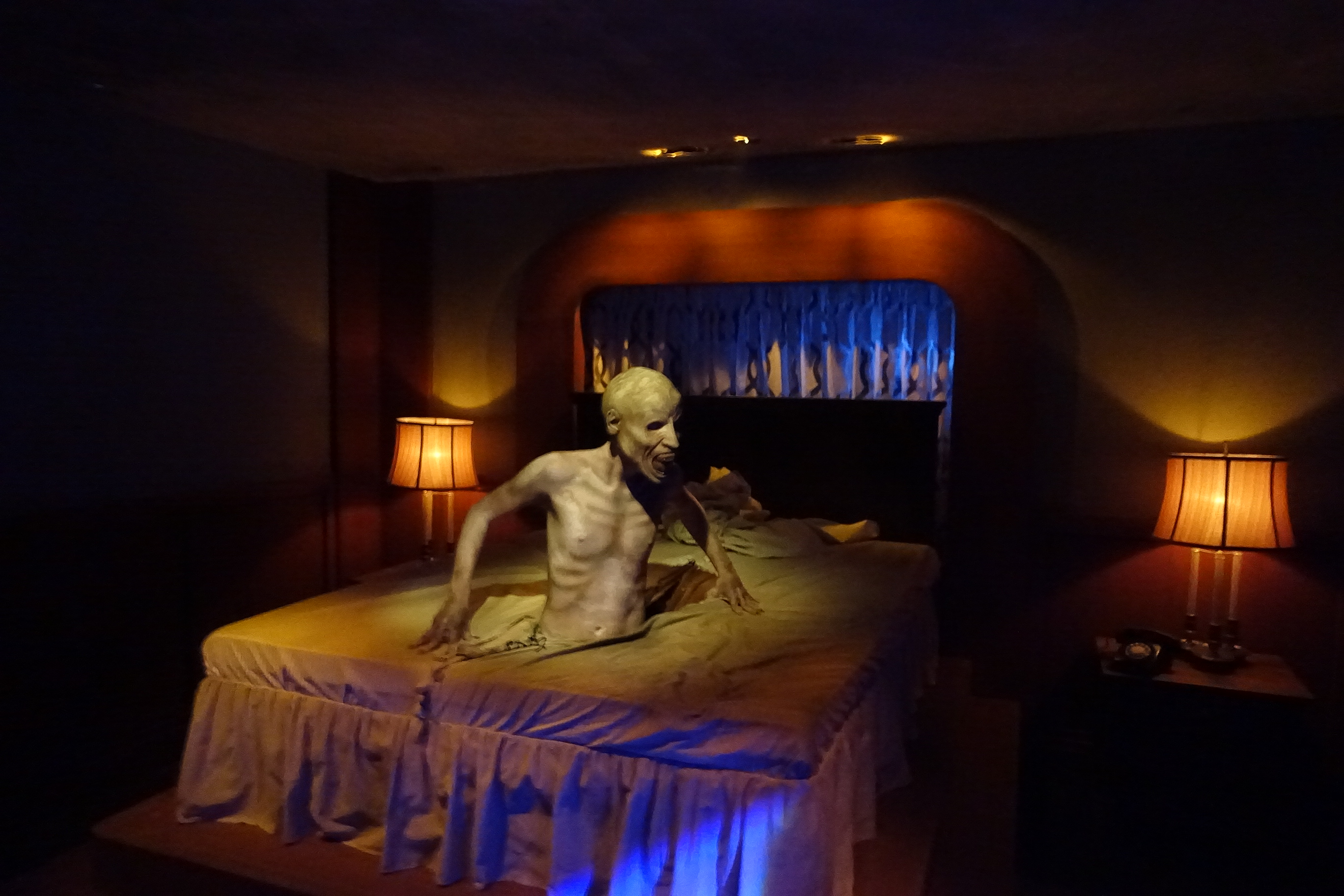 Halloween Horror Nights event dedicated to American Horror Story, Universal Studios Hollywood